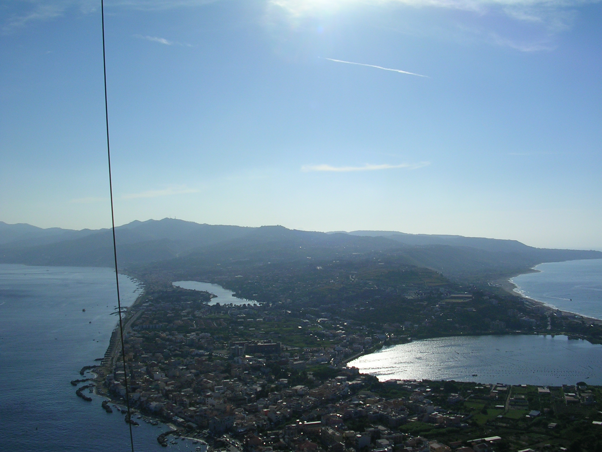 Capo Peloro, seen from the pylon.